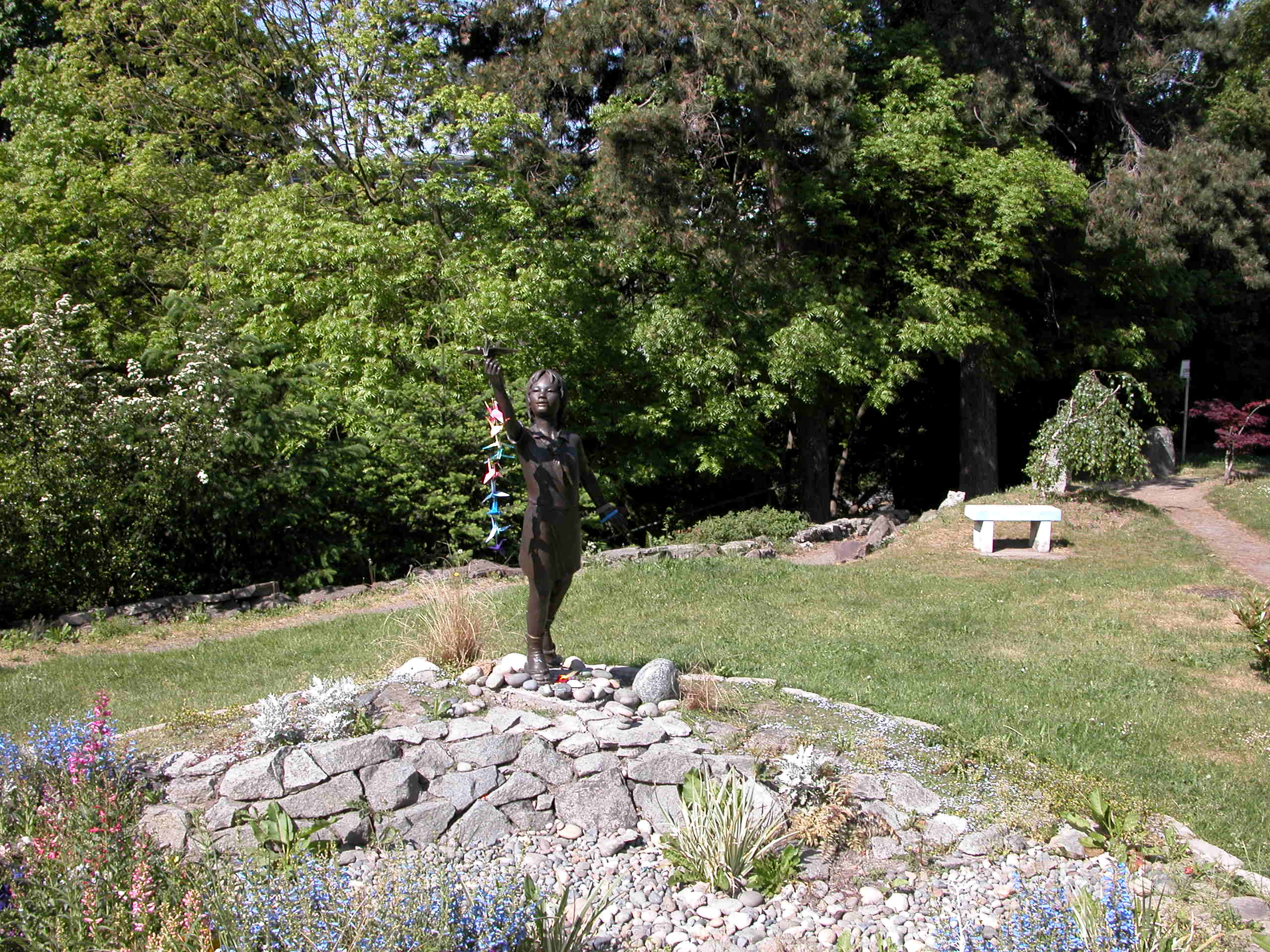 Sadako Sasaki statue in Peace Park in the University District of Seattle, Washington. Park was built by Floyd Schmoe.